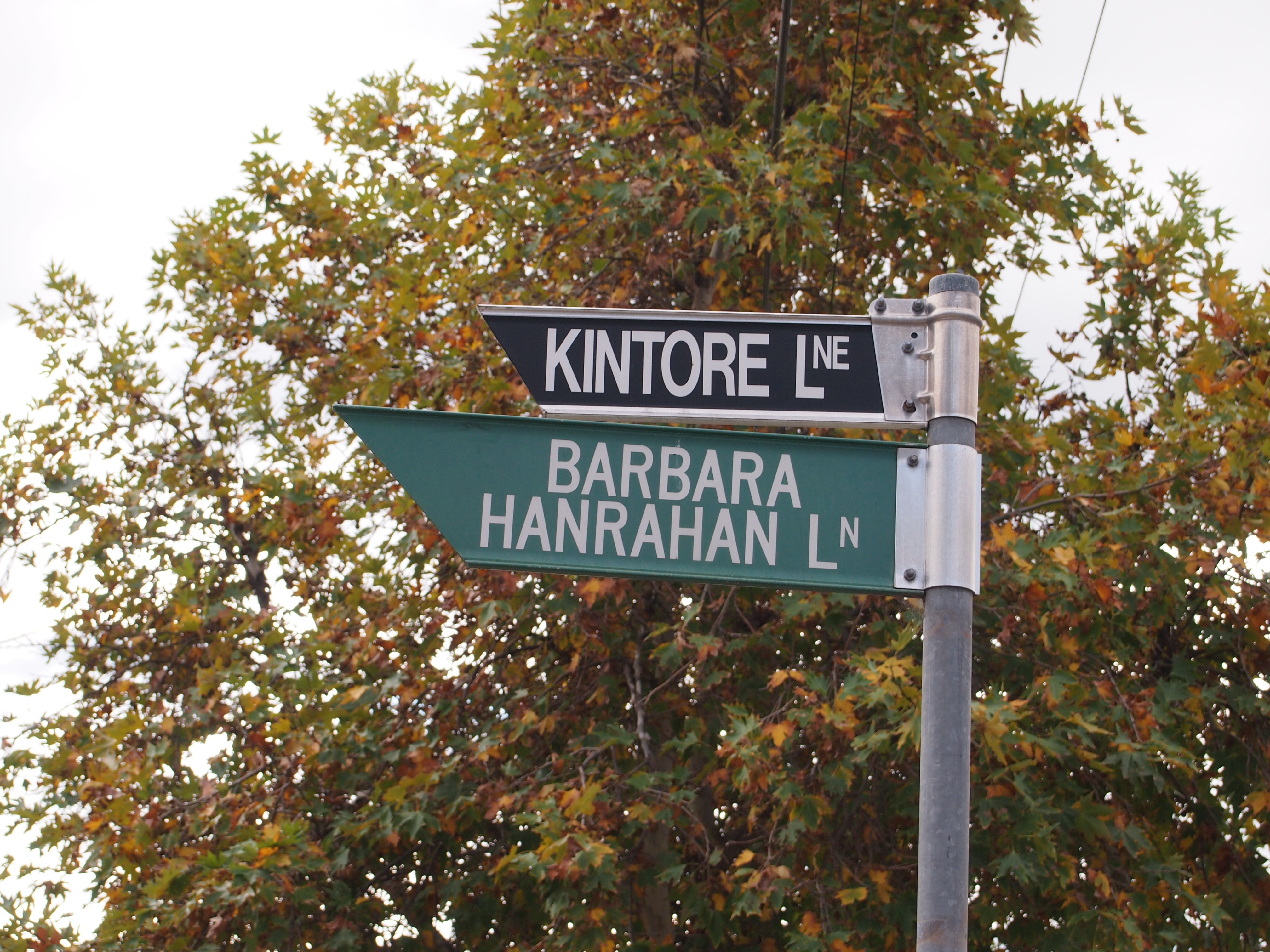 Barbara Hanrahan Lane sign Original filename= P5192336.JPG